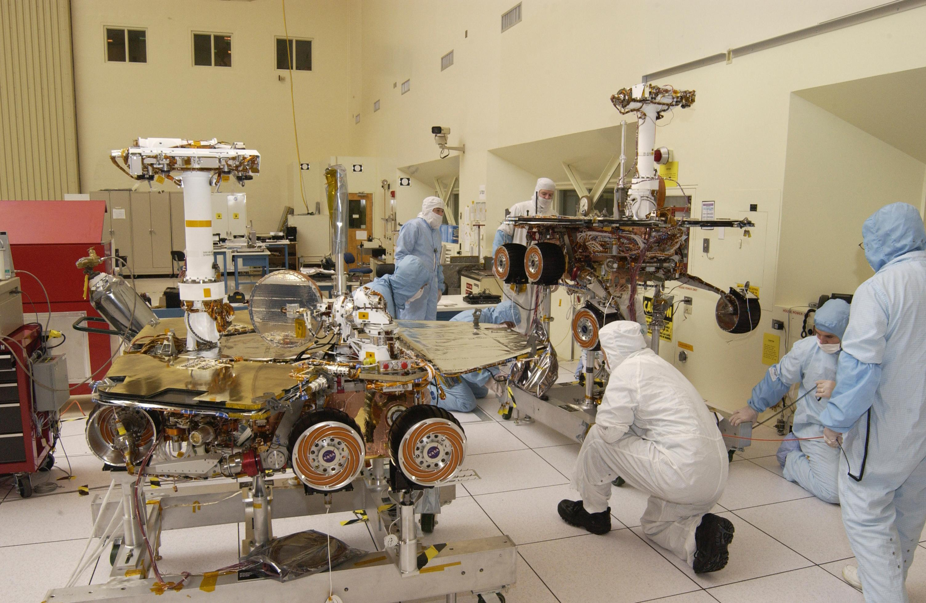 PIA23244: Spirit and Opportunity in High Bay 1 High Bay 1 looks much as it does today in this photo of NASA's Spirit and Opportunity Mars rovers being tested on Feb. 10, 2003. Some workers are wearing booties and others wear shoes that were stored in the gowning area and cleaned regularly.